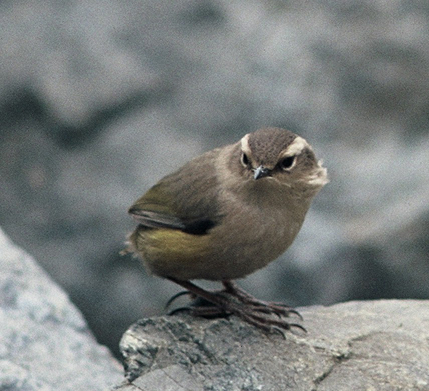 A NZ rock wren (Xenicus gilviventris) in a rockfall, its preferred habitat